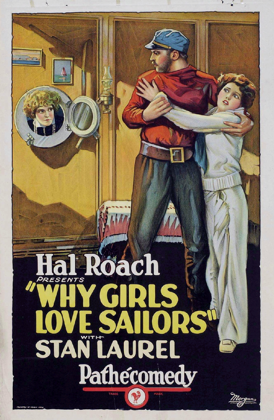 Poster for the American comedy film Why Girls Love Sailors (1927). There are no copyright marks on the poster. At bottom left is Country of origin USA. At bottom right is the logo of the Morgan Litho Co., Cleveland Ohio-they printed the poster.